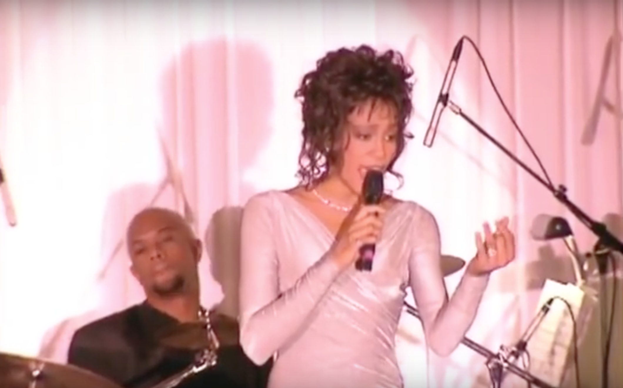 Whitney Houston performs at state dinner for Mandela in 1994